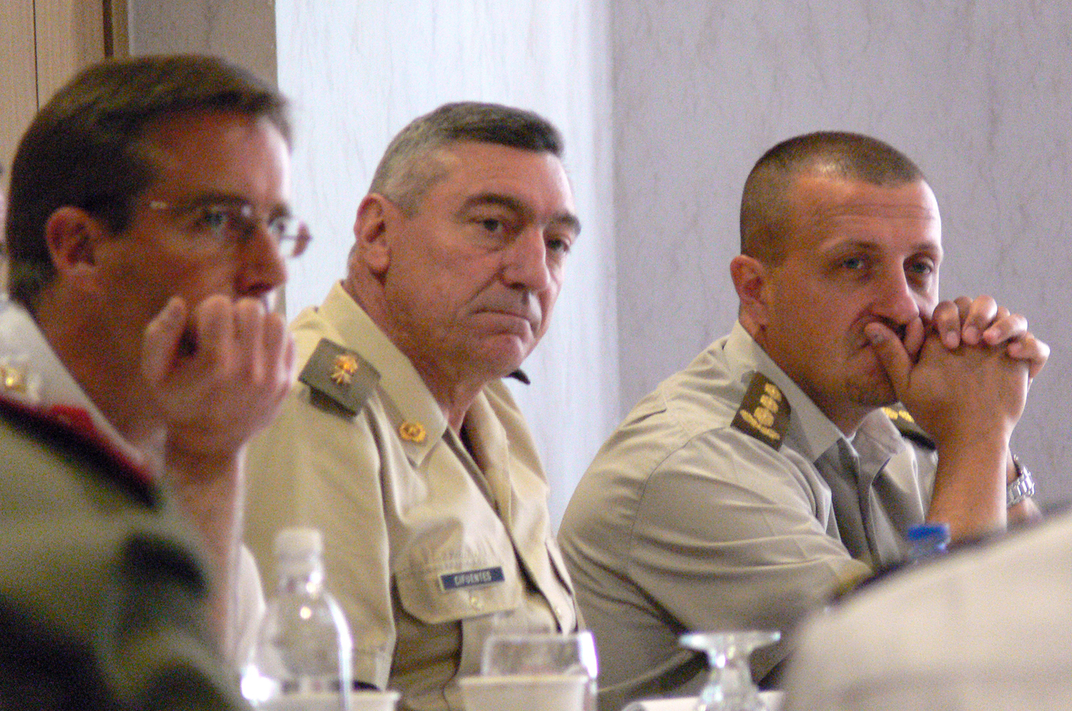 Col. Johnny Biggart, assistant director of collective training for the British Army (left); Col. Juan Cifuentes of the operations division of the Spanish Army staff headquarters (center); and Col. Artur Tiganik, chief of staff of the Estonian Land Forces, listen to discussion during U.S. Army Europe’s first Combined Forces Land Component Command Seminar at the Joint Multinational Training Command in Grafenwoehr, Germany, July 23.